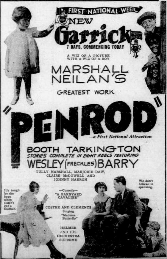 Newspaper advertisement for the American comedy drama film Penrod (1922) with Wesley Barry, Ernie "Sunshine Sammy" Morrison, Florence Morrison, Gordon Griffith, Baby Peggy, John Harron, and Marjorie Daw, on page 5 of the February 18, 1922 Duluth Herald.